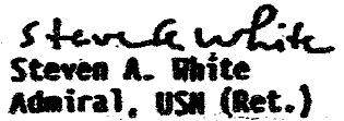 Retired Naval Officers request a review of the "dereliction of duty" findings for Pearl Harbor attack US officers